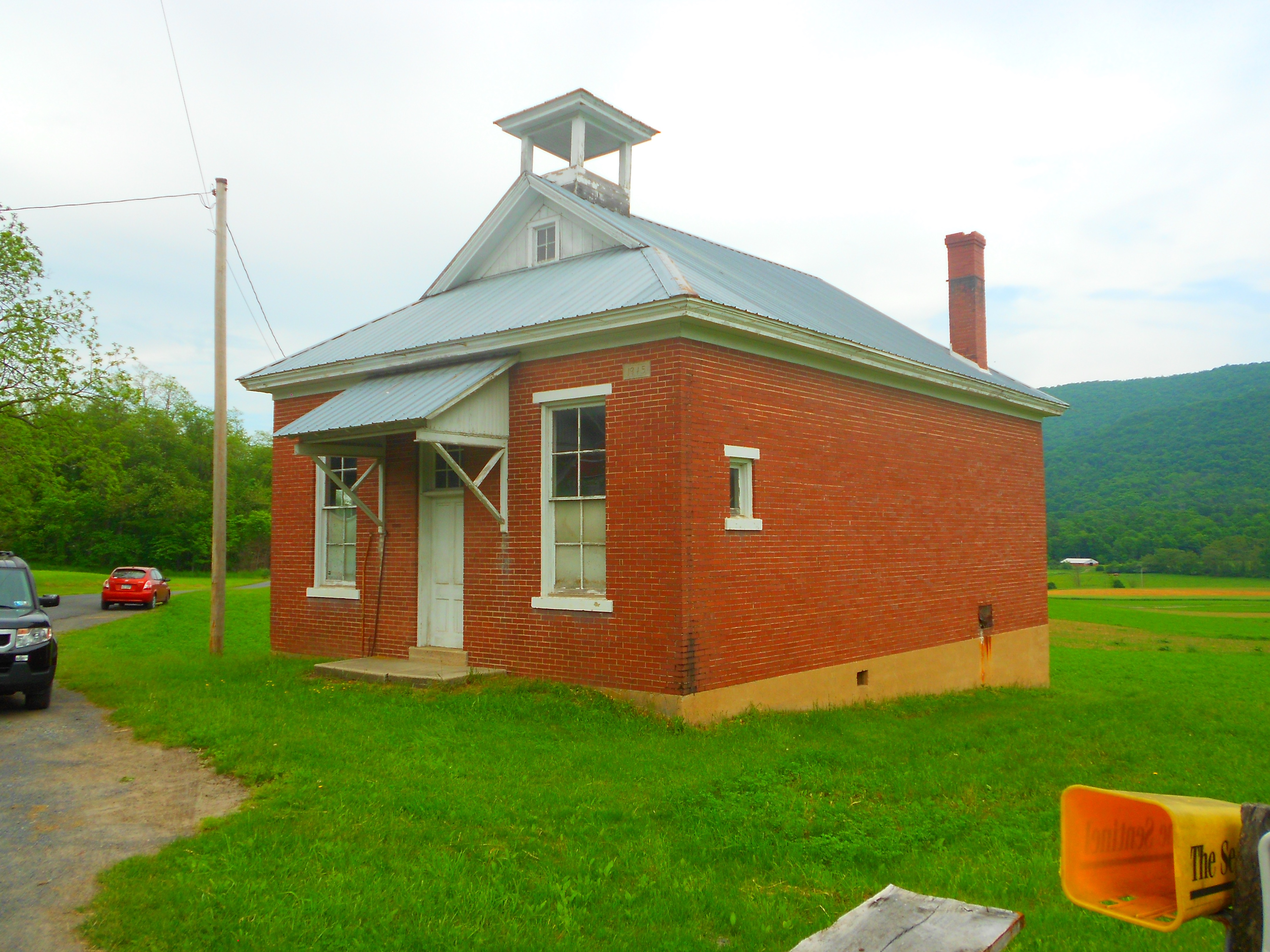 1 room school, Brown Road at SR 655, Brady Township, Huntingdon County, Pennsylvania. Date stone reads 1915